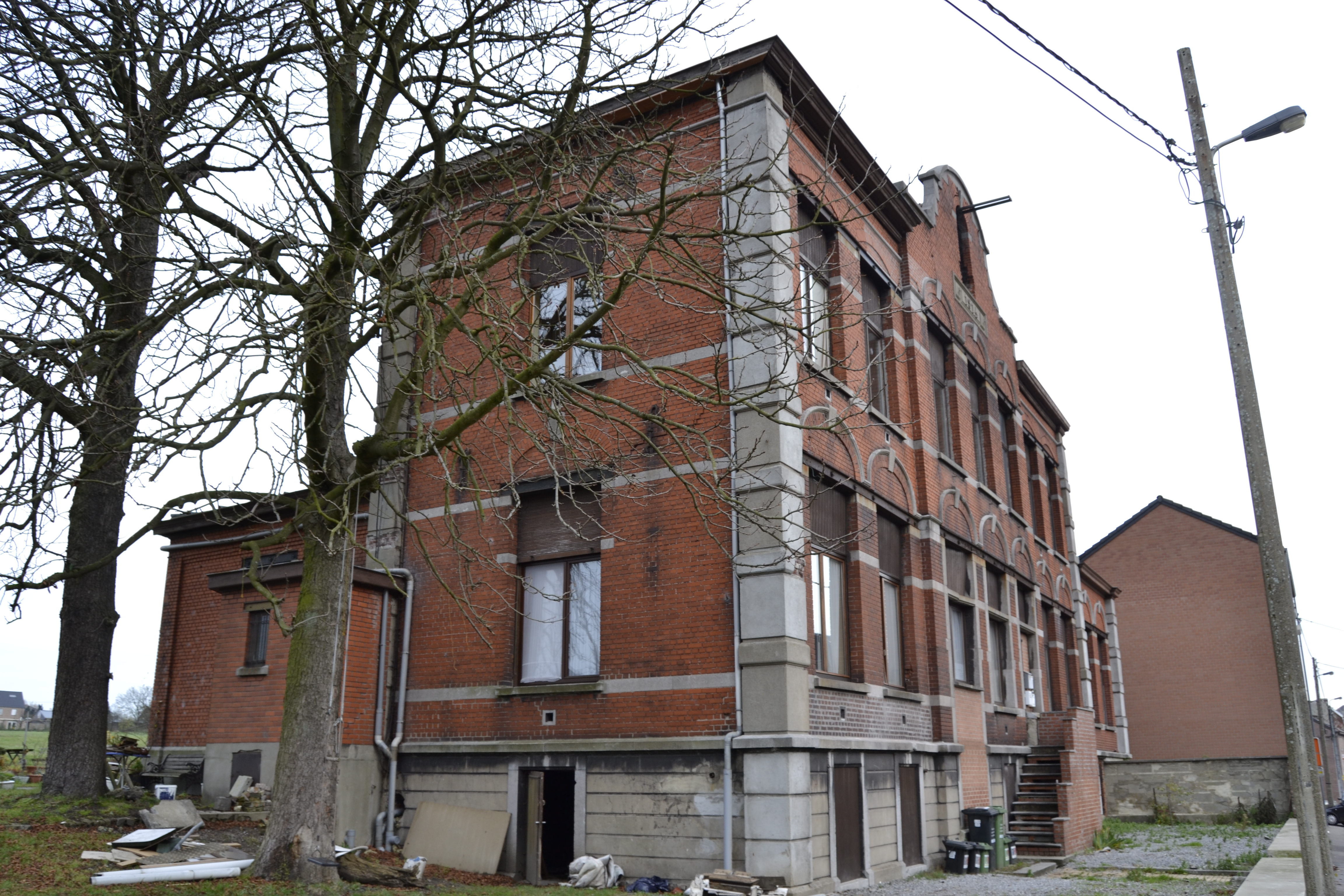 Ancient Bonnier coal mine seat in Grace-Hollogne, Liège, Belgium